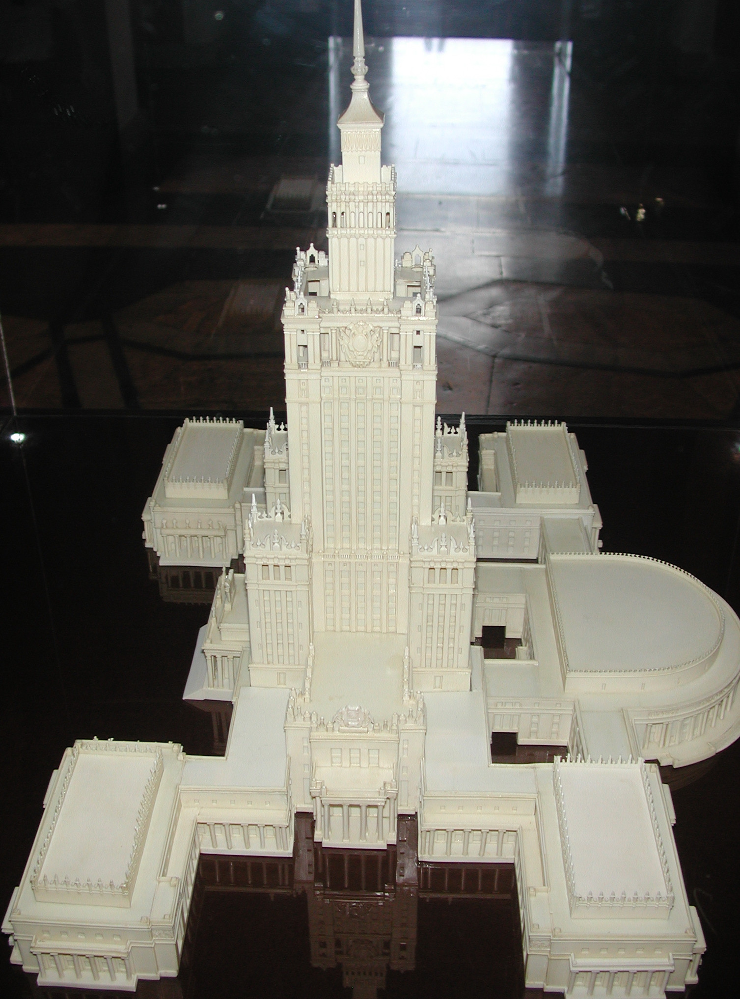 Poland, Palace of Culture and Science in Warsaw